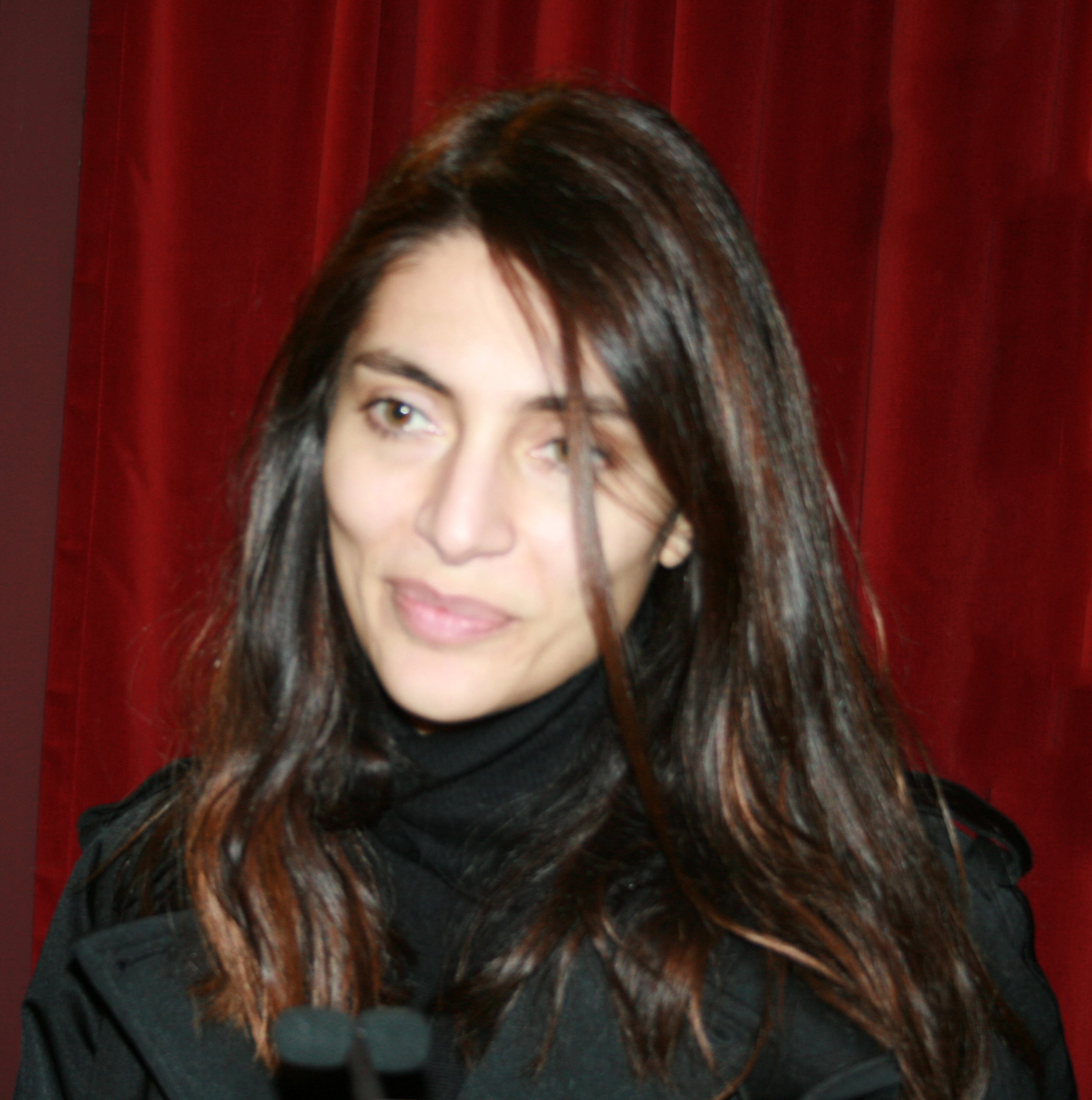 Actress Caterina Murino